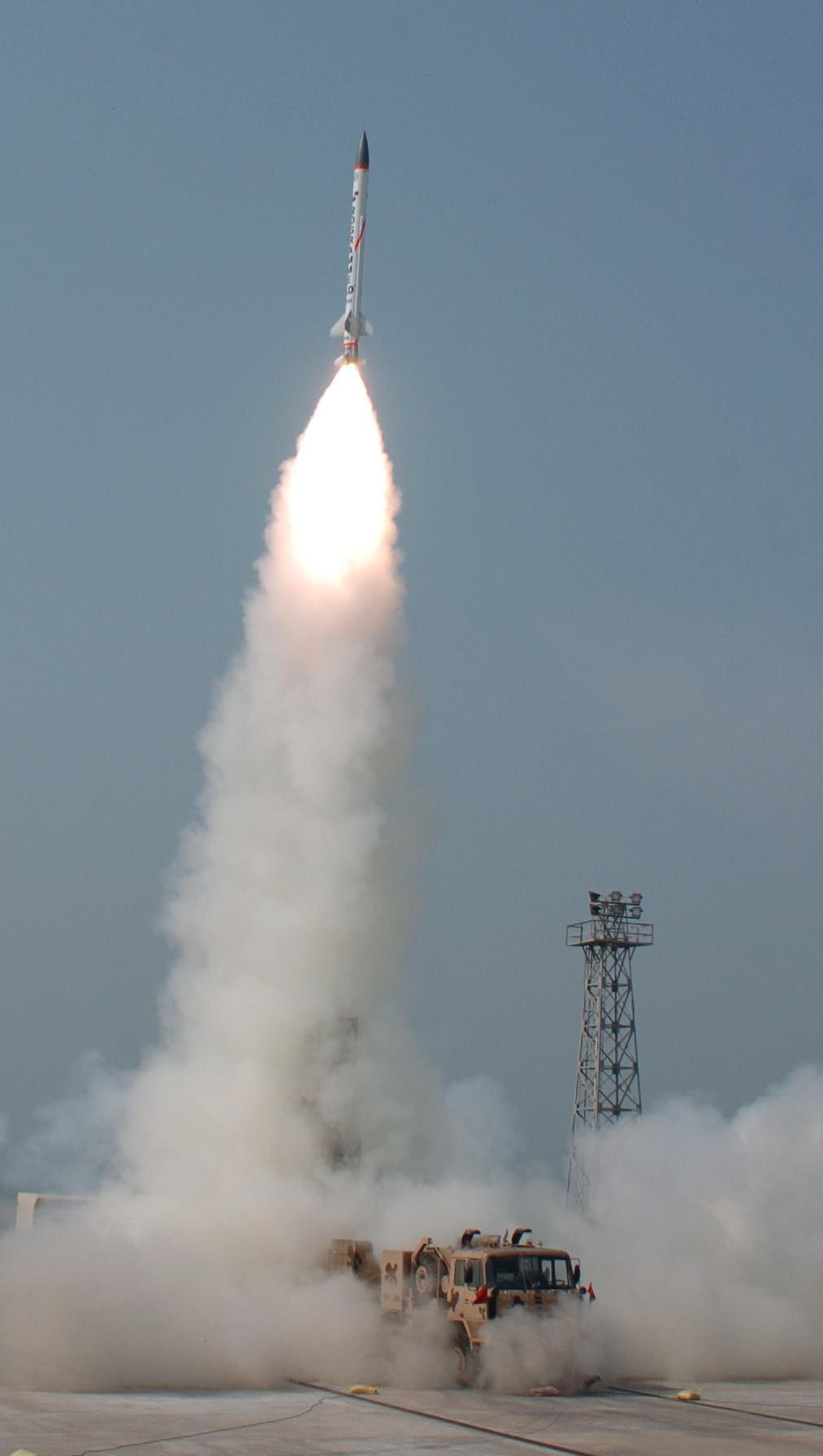 The Advanced Air Defence (AAD) missile being launched during the first ever test of the Indian AAD Missile system, conducted on 6 December, 2007 from DRDO's Integrated Test Range (ITR), Wheeler's Island, Chandipur-on-Sea, Orissa. The AAD is an endo-atmospheric anti-ballistic missile system that can intercept incoming ballistic at altitudes up to 30 km. in this test, the AAD intercepted the incoming missile at an altitude of 15 km. Image is a cropped version of Image:AAD Test.jpg